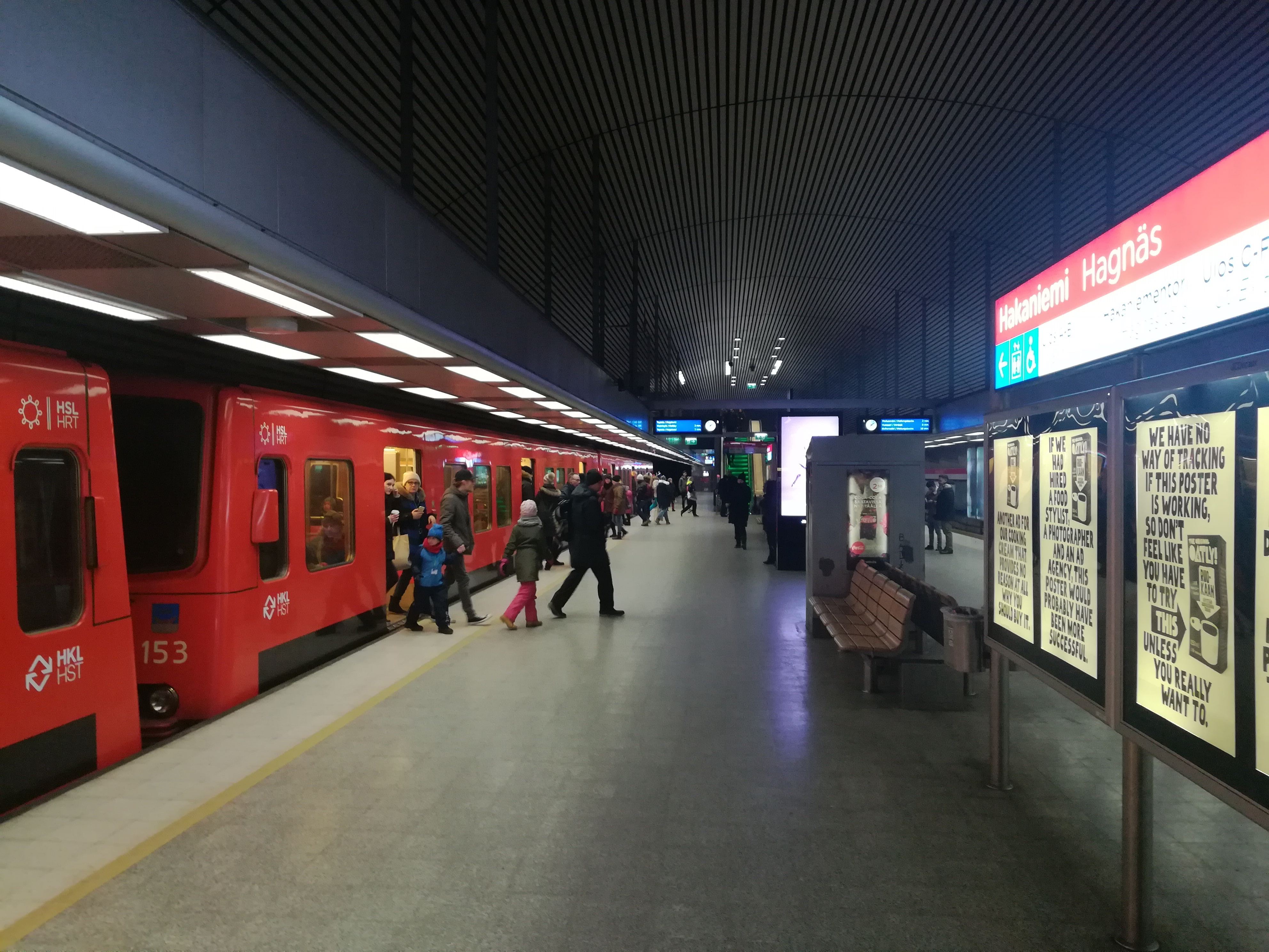 Hakaniemi metro station in Helsinki, Finland on February 24th, 2018.